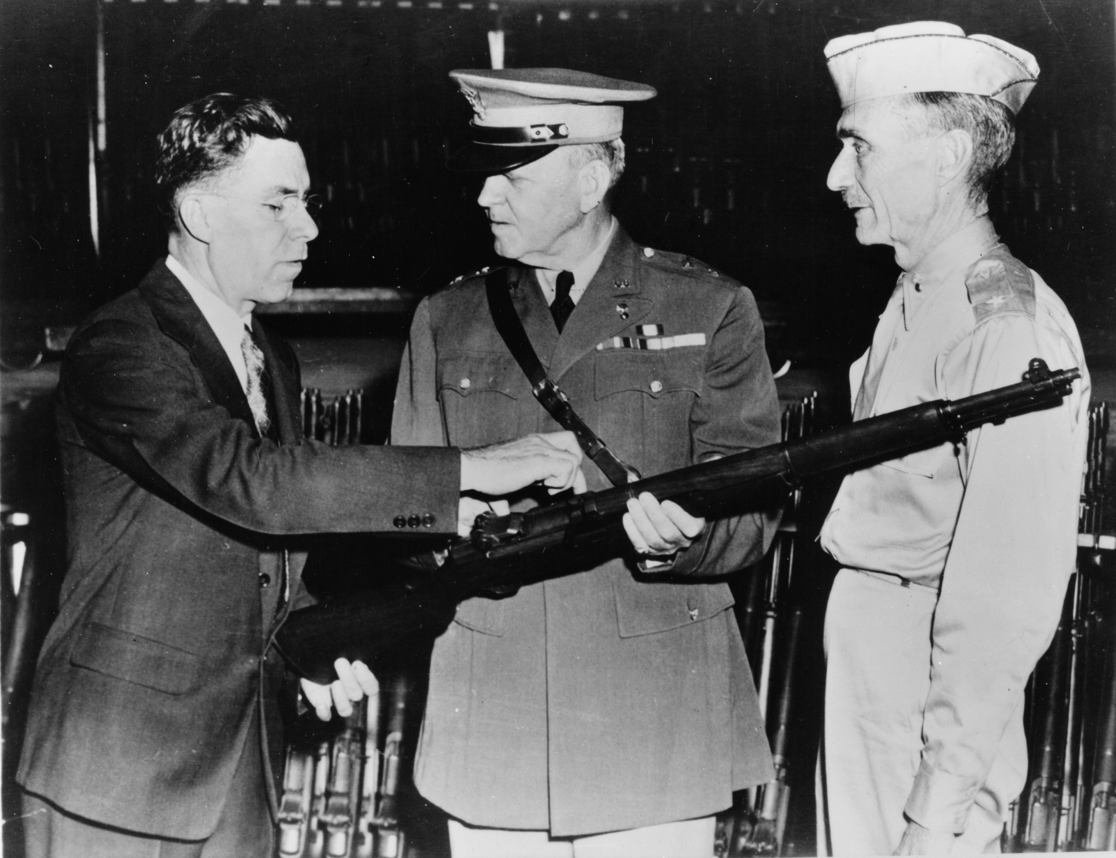 John Garand, left, points out features of the M1 Garand rifle to senior Army officials: Major General Charles M. Wesson, center, Brigadier General Gilbert H. Stewart, right.